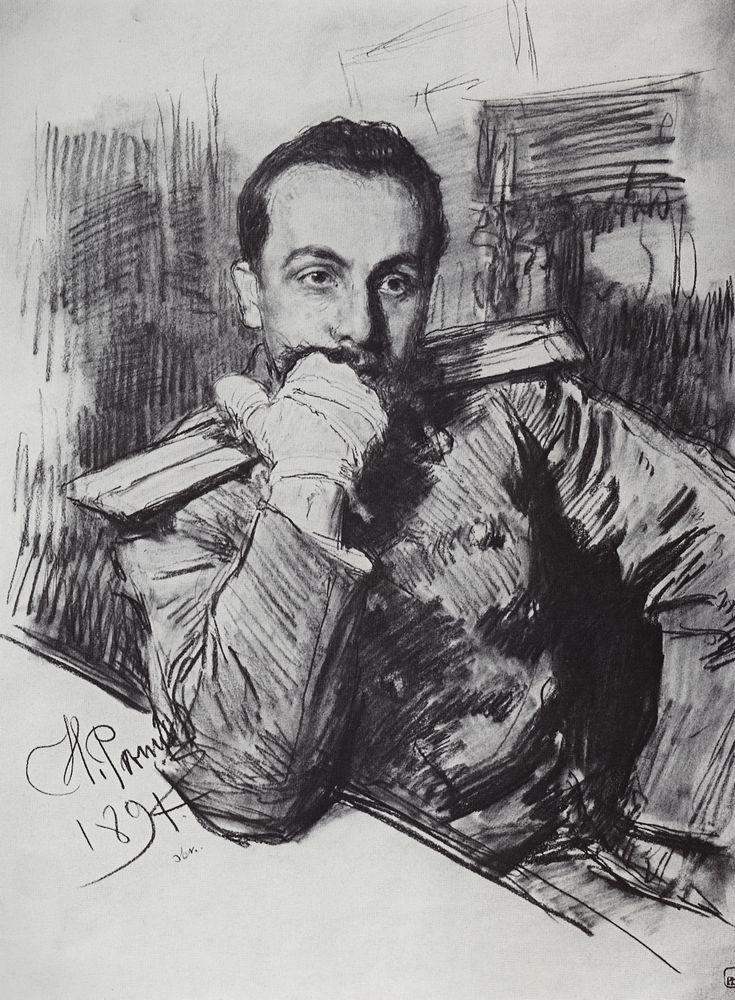 Portrait of writer Alexander Vladimirovich Zhirkevich. Pencil on Paper. 40.9 × 29.8 cm. The State Russian Museum, St. Petersburg.